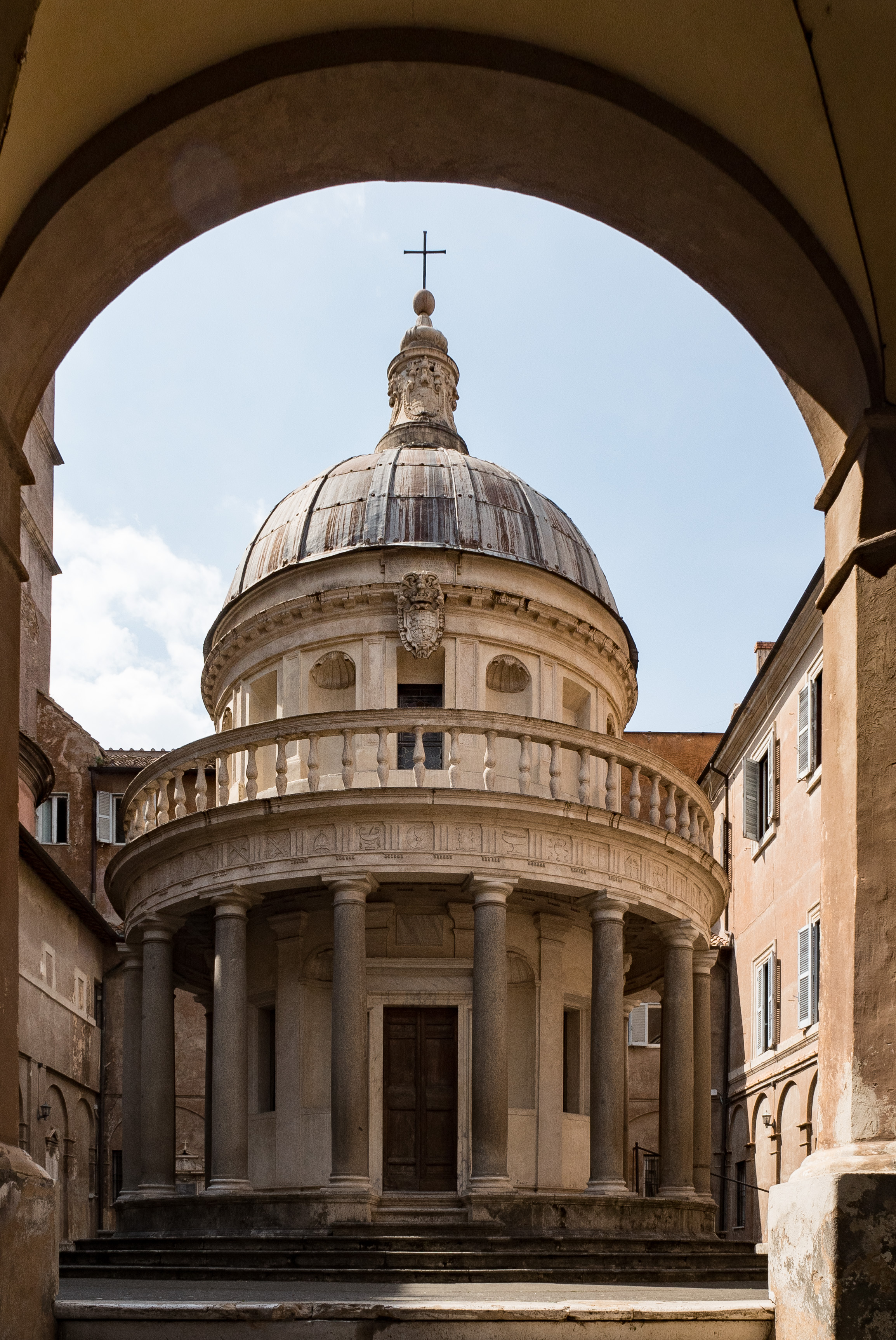 Tempietto del Bramante, main entrance